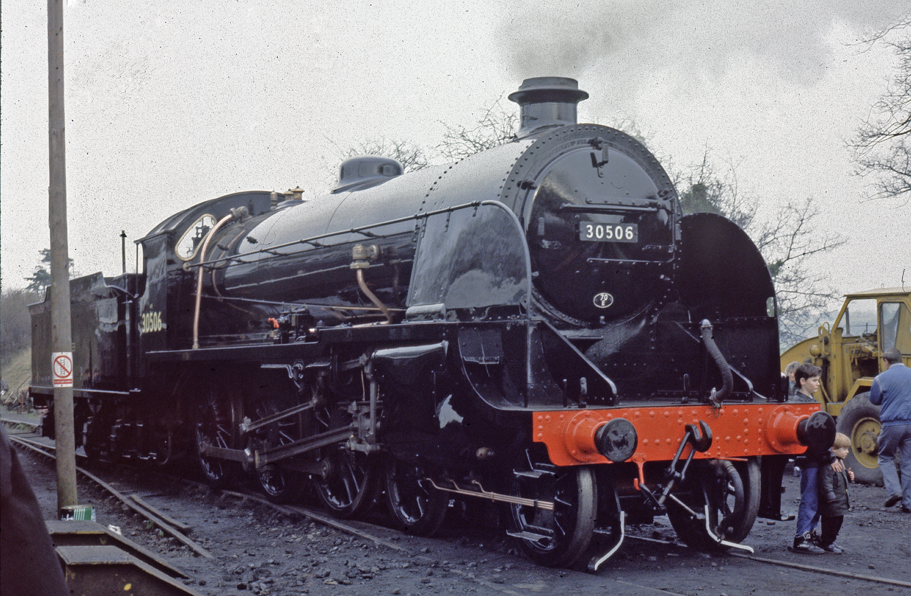 In Ropley yard. A scan from an 80s slide.